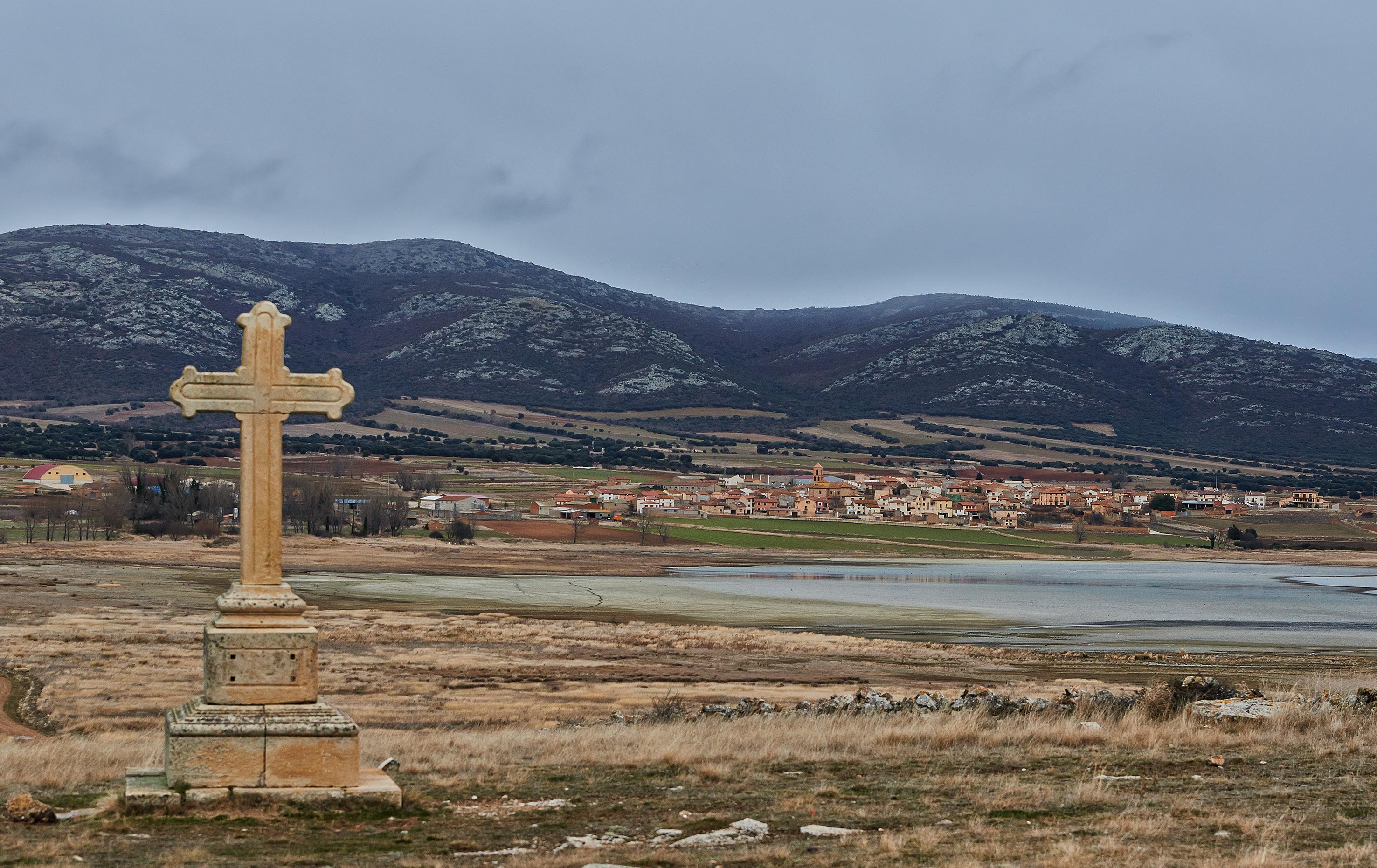 Gallocanta general Landscape (Aragón, Spain)